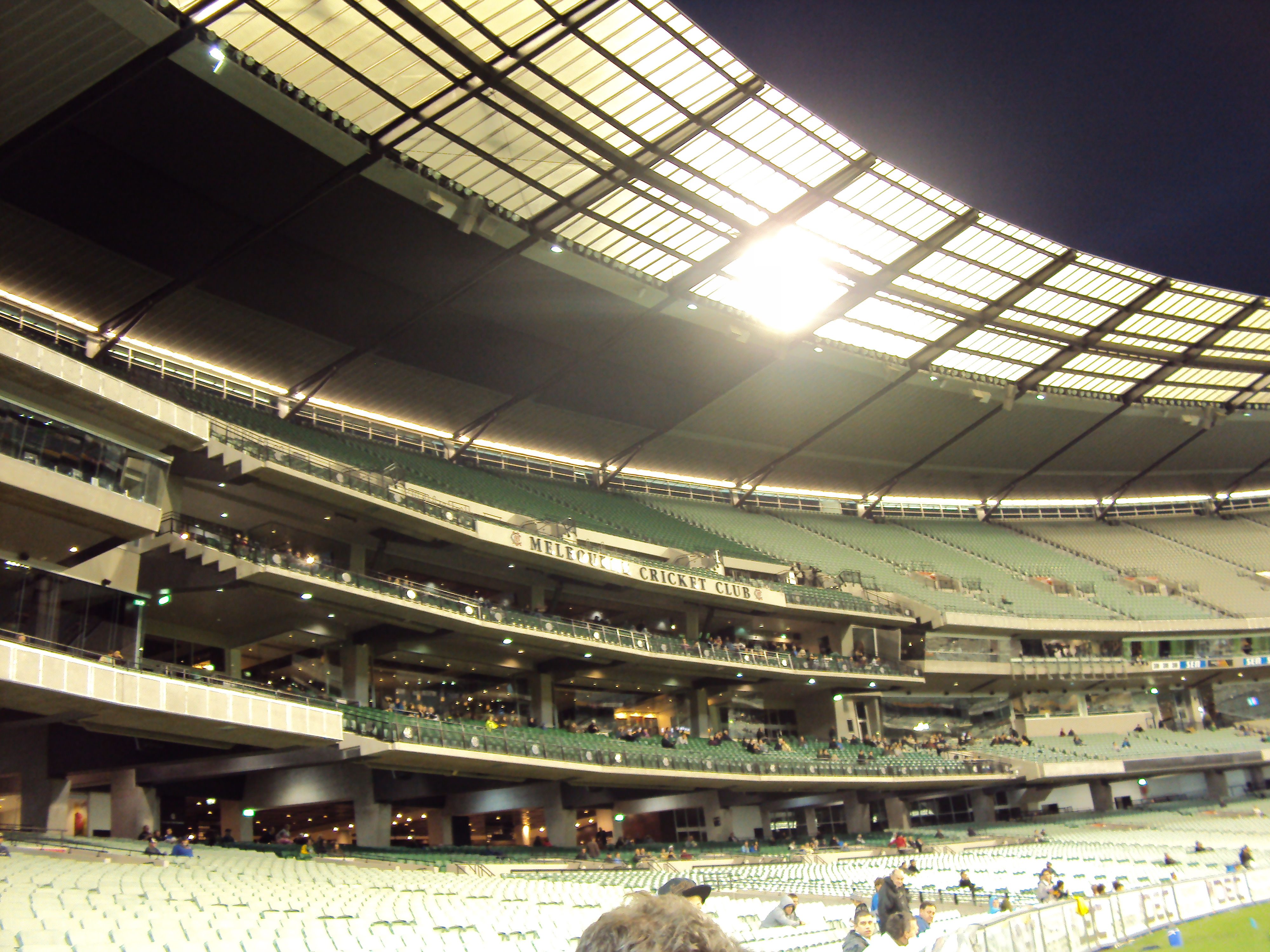 Pavilion of the Melbourne Cricket Club